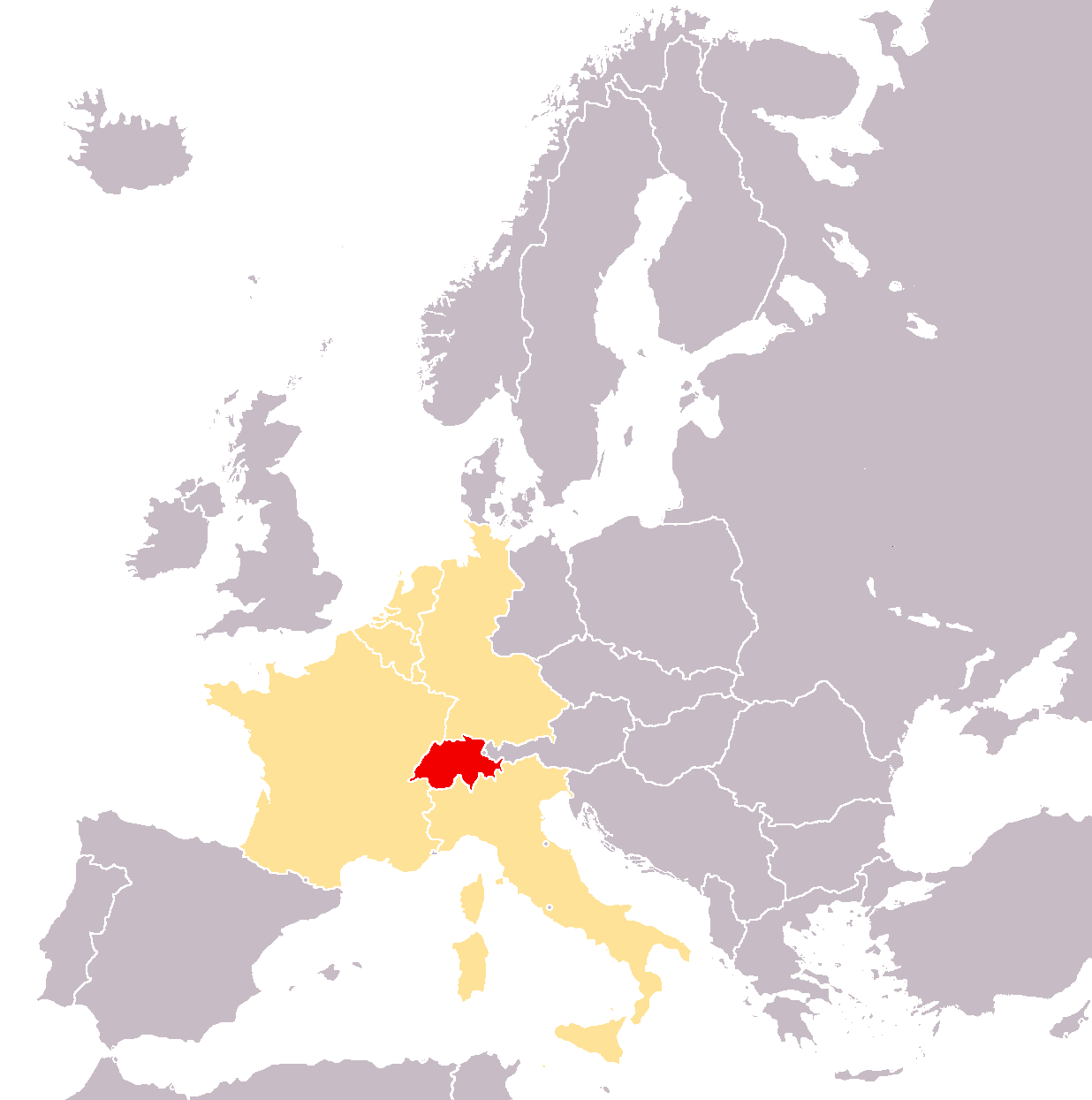 Map of Eurovision 1956